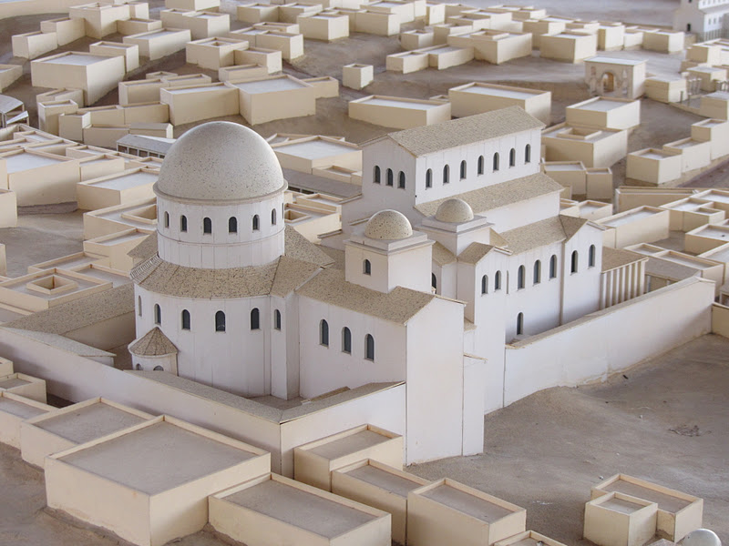 The model of the Holy Sepulchre in the Byzantine period at St. Peter's in Gallicantu; East Jerusalem